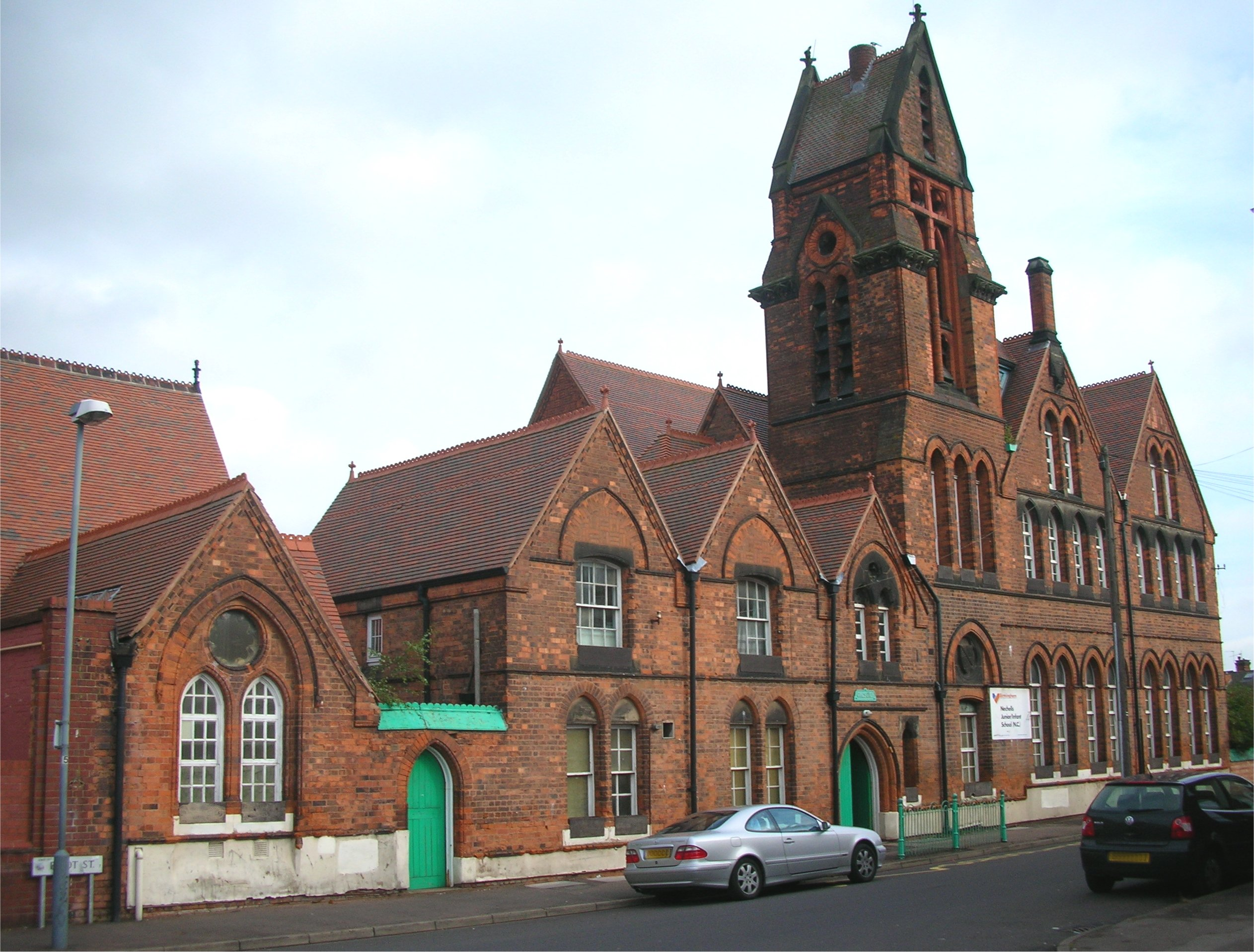 Nechells Junior and Infant School, Eliot Street, Nechells, Birmingham, England. Originally Nechells County Primary School, a Birmingham board school. 1879. Photographed by me 12 October 2006. Oosoom